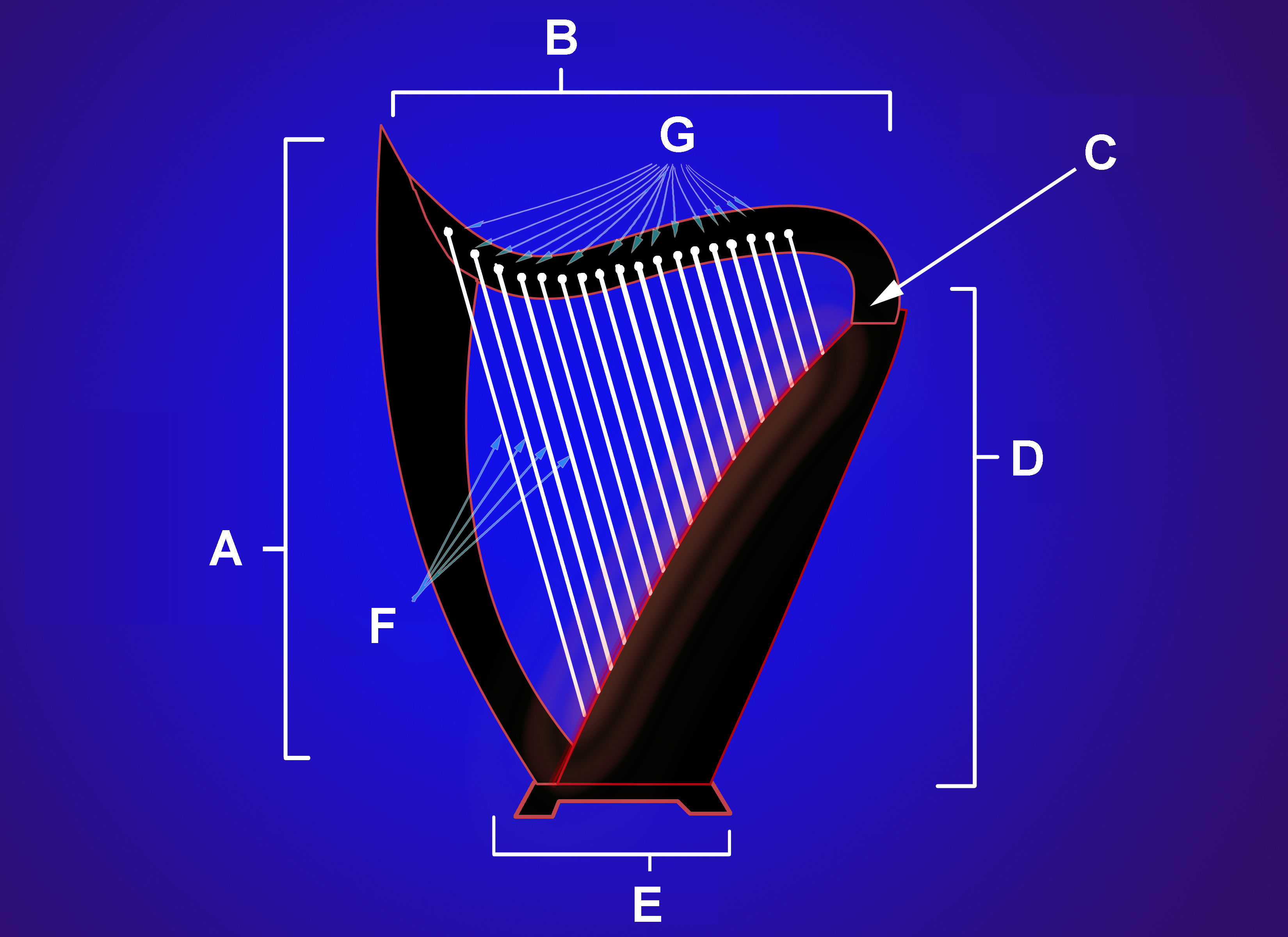 An simplified schematic of a Celtic-style harp depicting the main structural elements and their relationship to each other.